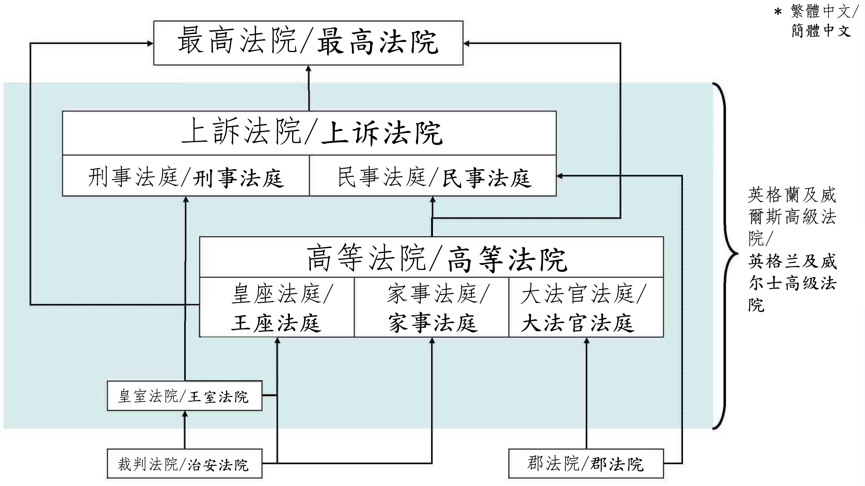 The England and Wales court system